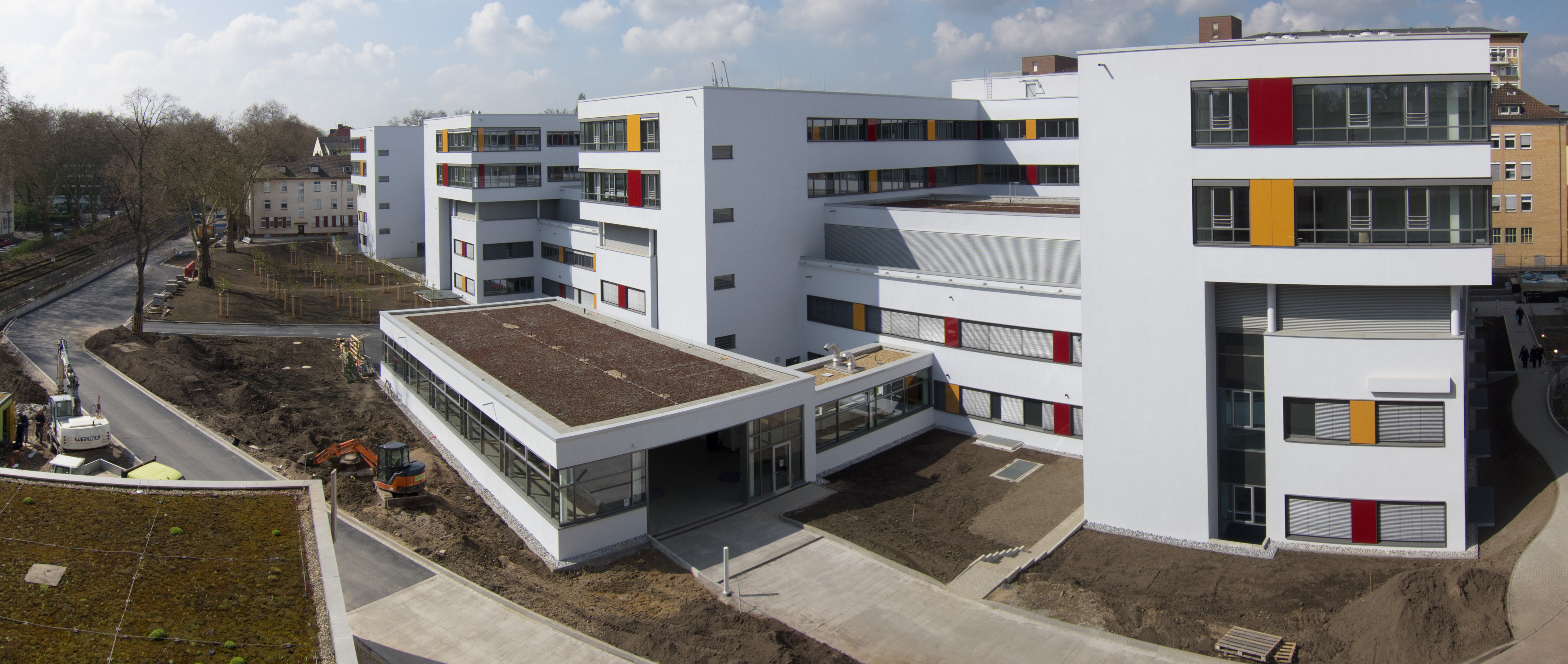 Klinikum Dortmund ZOPF - Central surgical and medical center